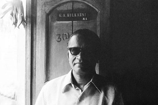 G A Kulkarni - Legendary Marathi story writer